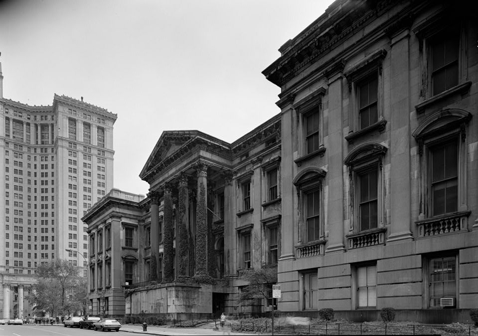 Tweed Courthouse on Chambers Street, New York, New York (Manhattan) - north, main facade. Manhattan Municipal Building is in background.